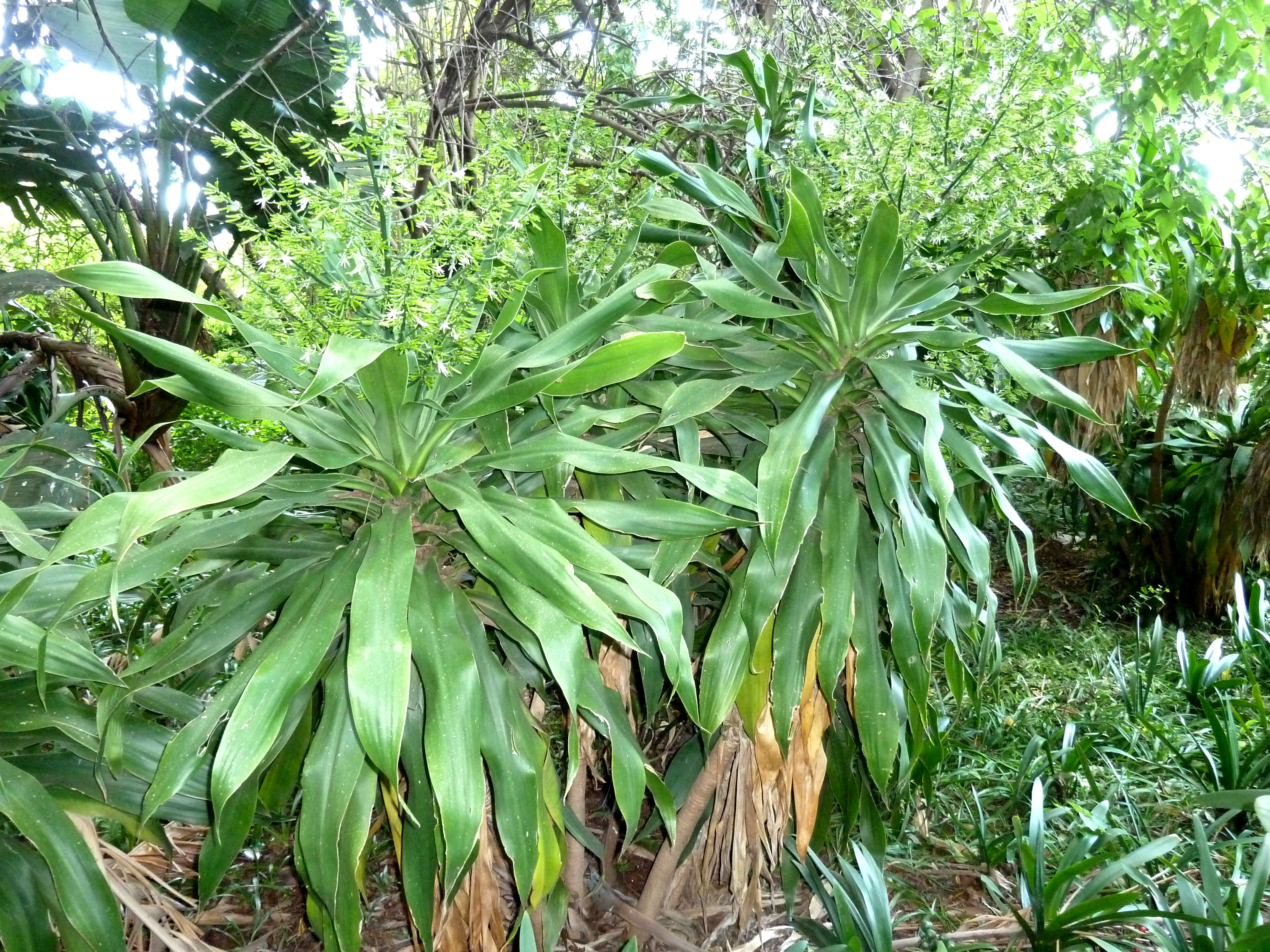 Large-leaved dragon-tree in Springbok Park, Pretoria